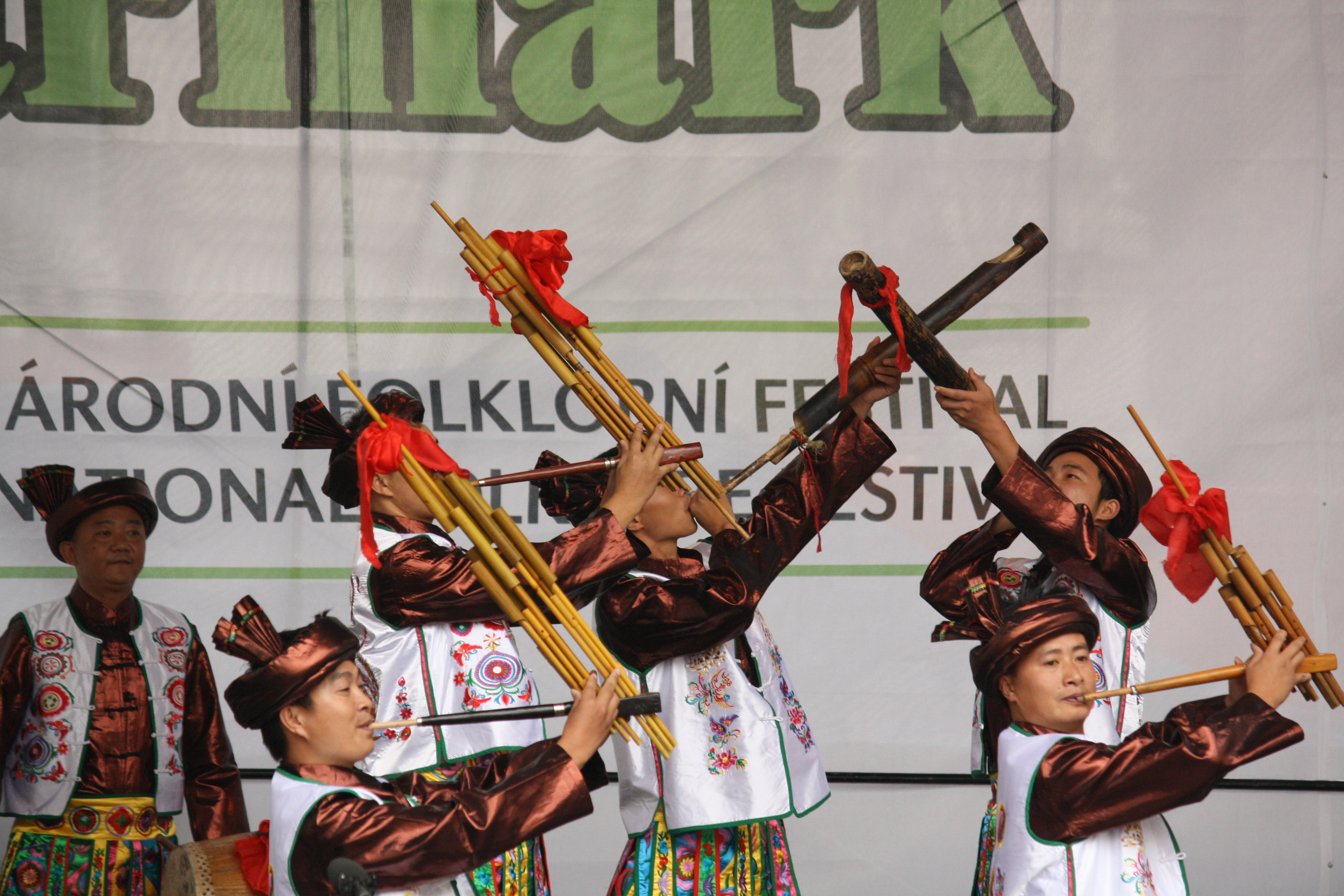 7th international folklore festival "Pražský jarmark" - Guizhou Folk Art Group (China) This photograph was taken with a DSLR from WMCZ's Camera grant. Personality rights warningAlthough this work is freely licensed or in the public domain, the person(s) shown may have rights that legally restrict certain re-uses unless those depicted consent to such uses. In these cases, a model release or other evidence of consent could protect you from infringement claims.